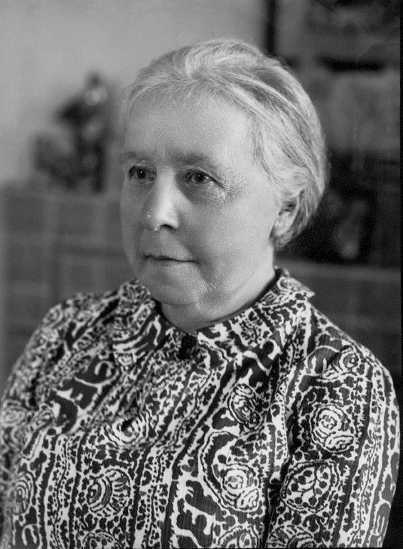 Margaret Alice Murray